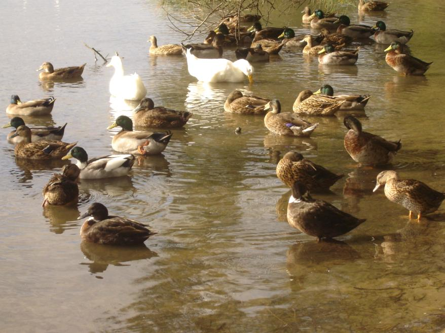 A large group of ducks at Narrabeen Lake.